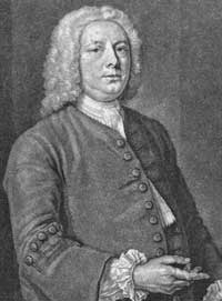 Portrait of William Caslon, mezzotint